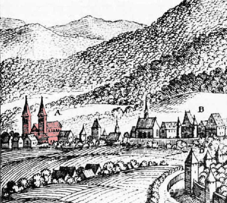 St. Paulin (left) and St. Maximin's Abbey (middle) outside of the German town Trier (defensive walls on the lower right). Part of an engraving from the 1646 book "Topographia Archiepiscopatuum Moguntinensis". The view is probably taken from 1548; see commentary on image:De Merian Mainz Trier Köln 045.jpg. - The coloration is not from the original engraving and was added to highlight the building.